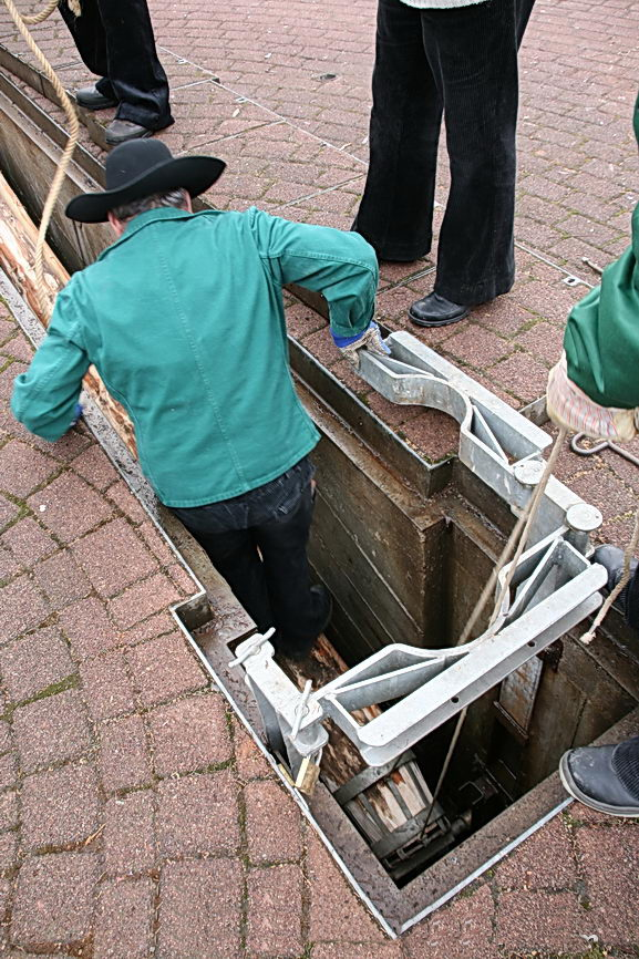 This is the Hole in which the traditional karneval tree is set into.